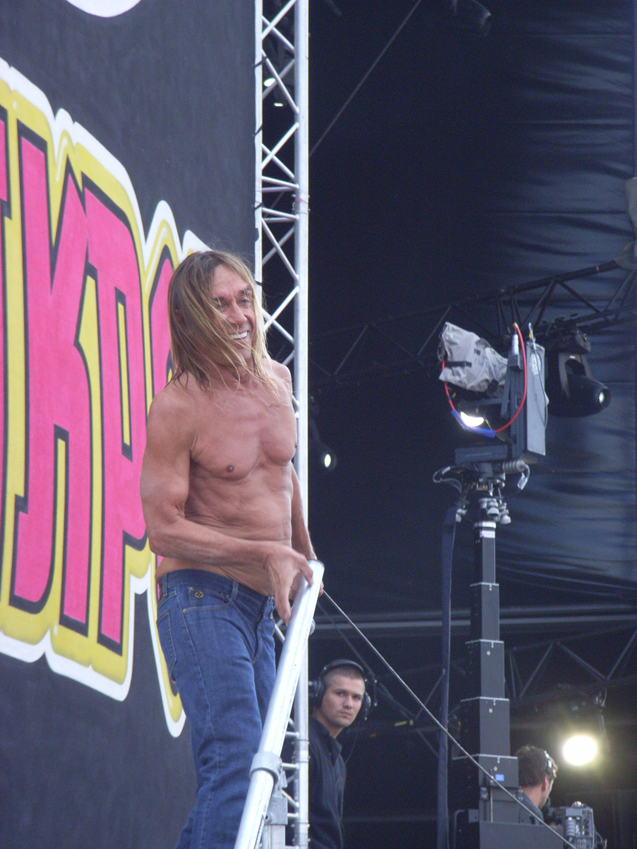 Iggy Pop at Pinkpop 2007